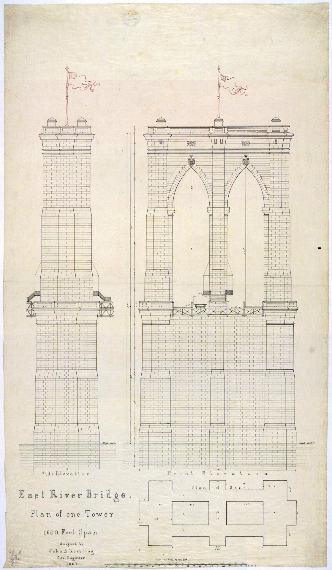 Plan of One Tower for the East River Bridge, 1867. From the National Archives.